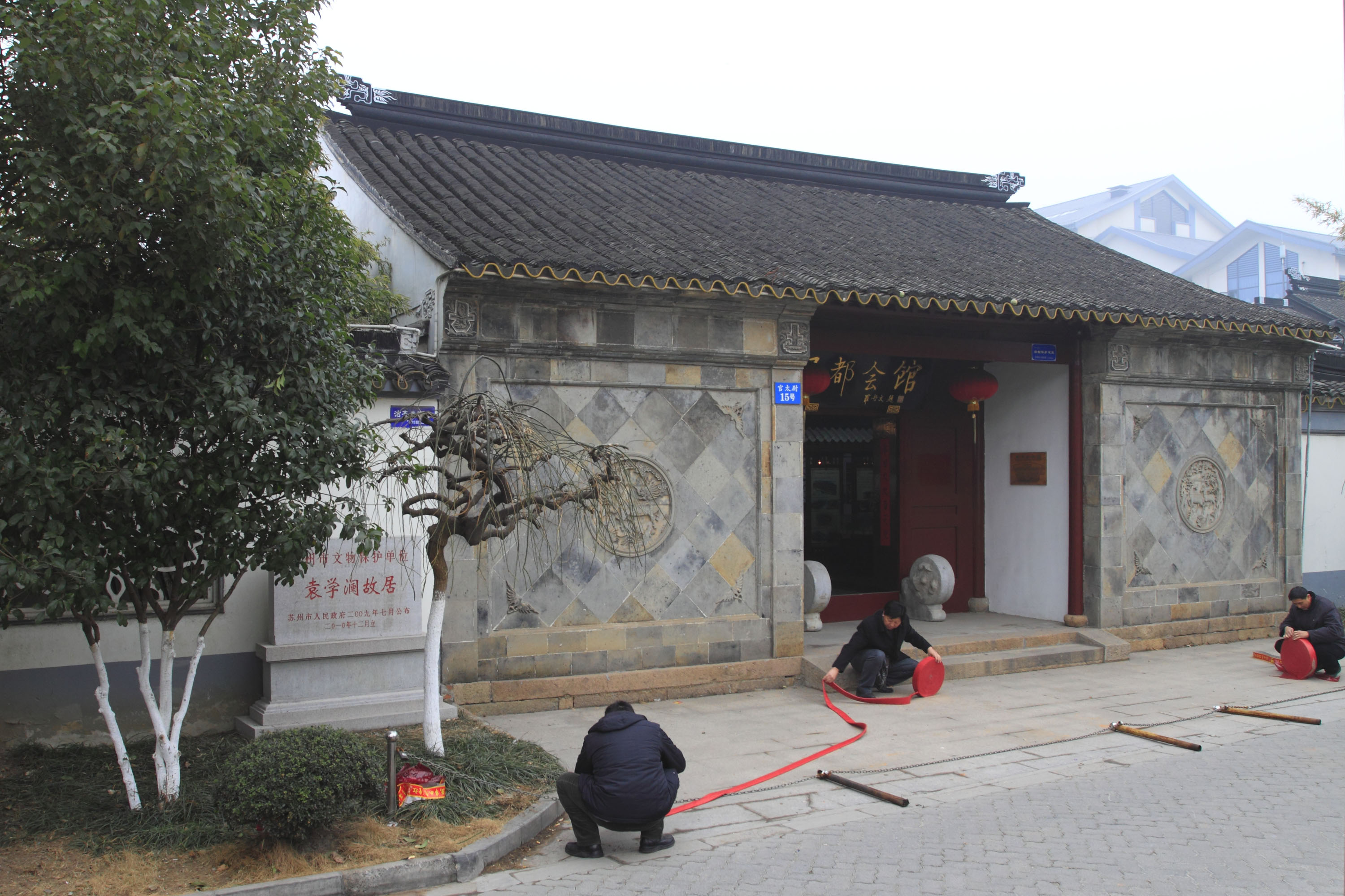 Former home of Yuan Xuelan, and present day historic house museum — in Suzhou, Jiangsu Province, Southeast China.